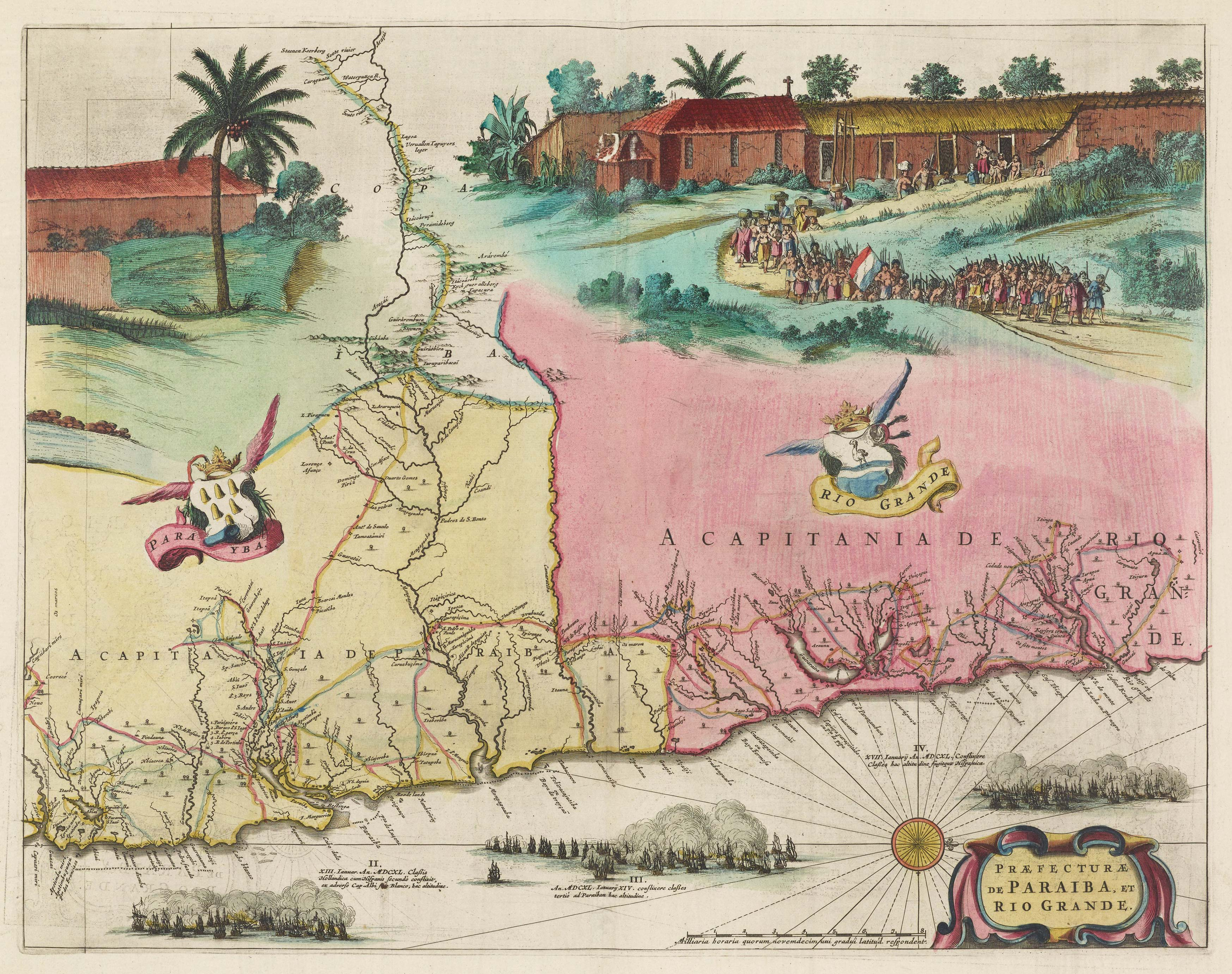 Map of the captaincies of Paraíba and Rio Grande